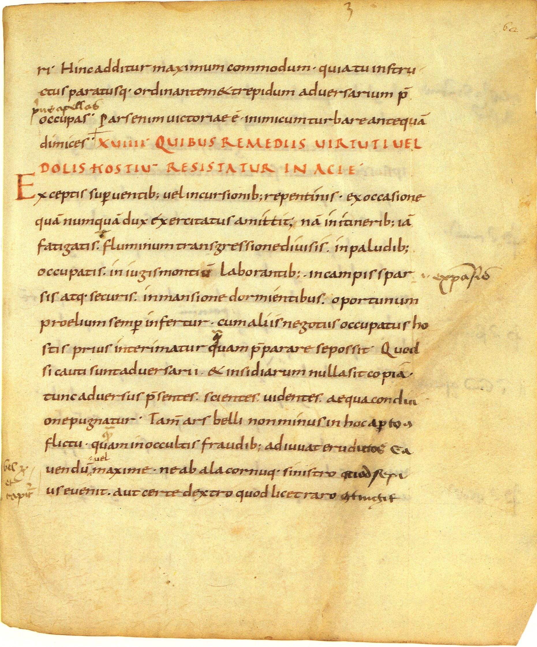 Vegetius, Epitoma rei militaris, in a manuscript written for Lupus Servatus. Biblioteca Apostolica Vaticana, Vaticanus Palatinus lat. 1572, fol. 62r.